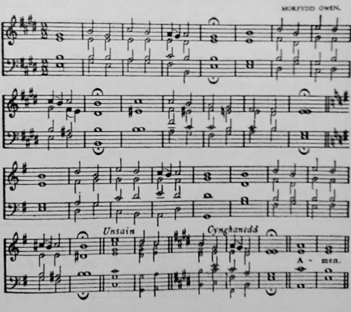 Score of Pen Ucha by Morfydd Llwyn Owen